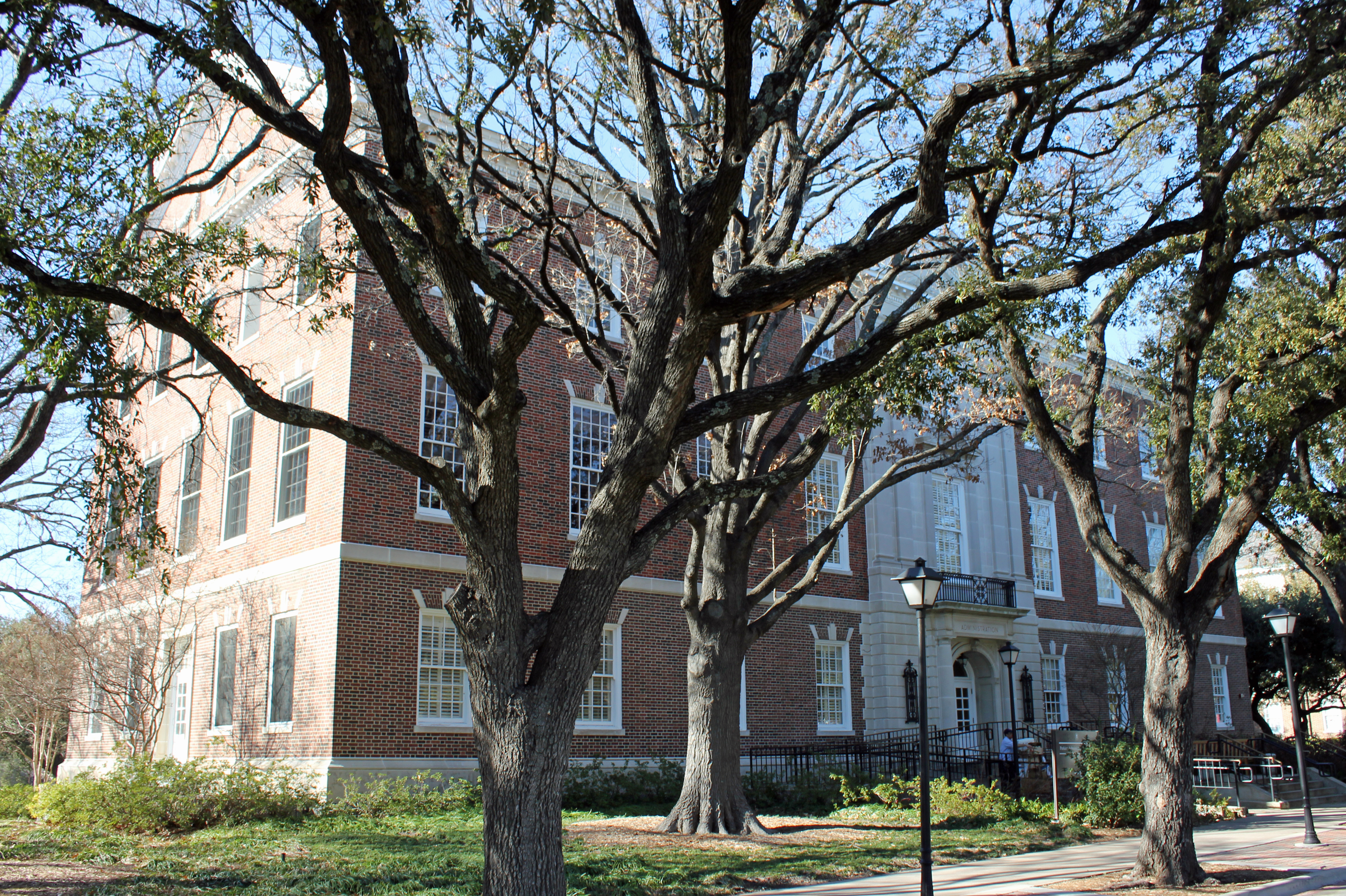 The Perkins Hall of Administration, located on the Southern Methodist University Campus. Located at 6425 Hillcrest Avenue, the property is listed on the National Register of Historic Places.